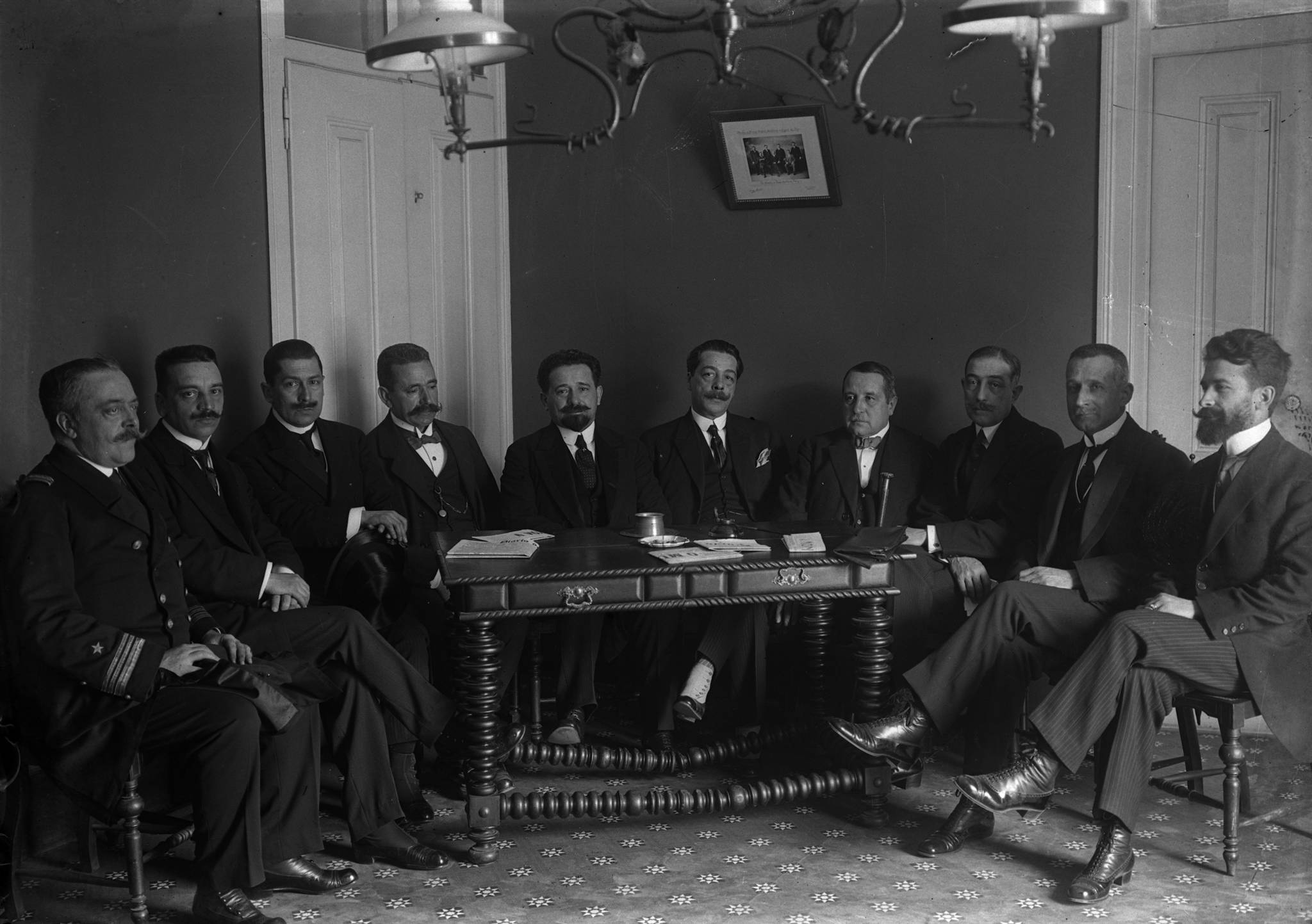 The 14th Portuguese Republican Government.